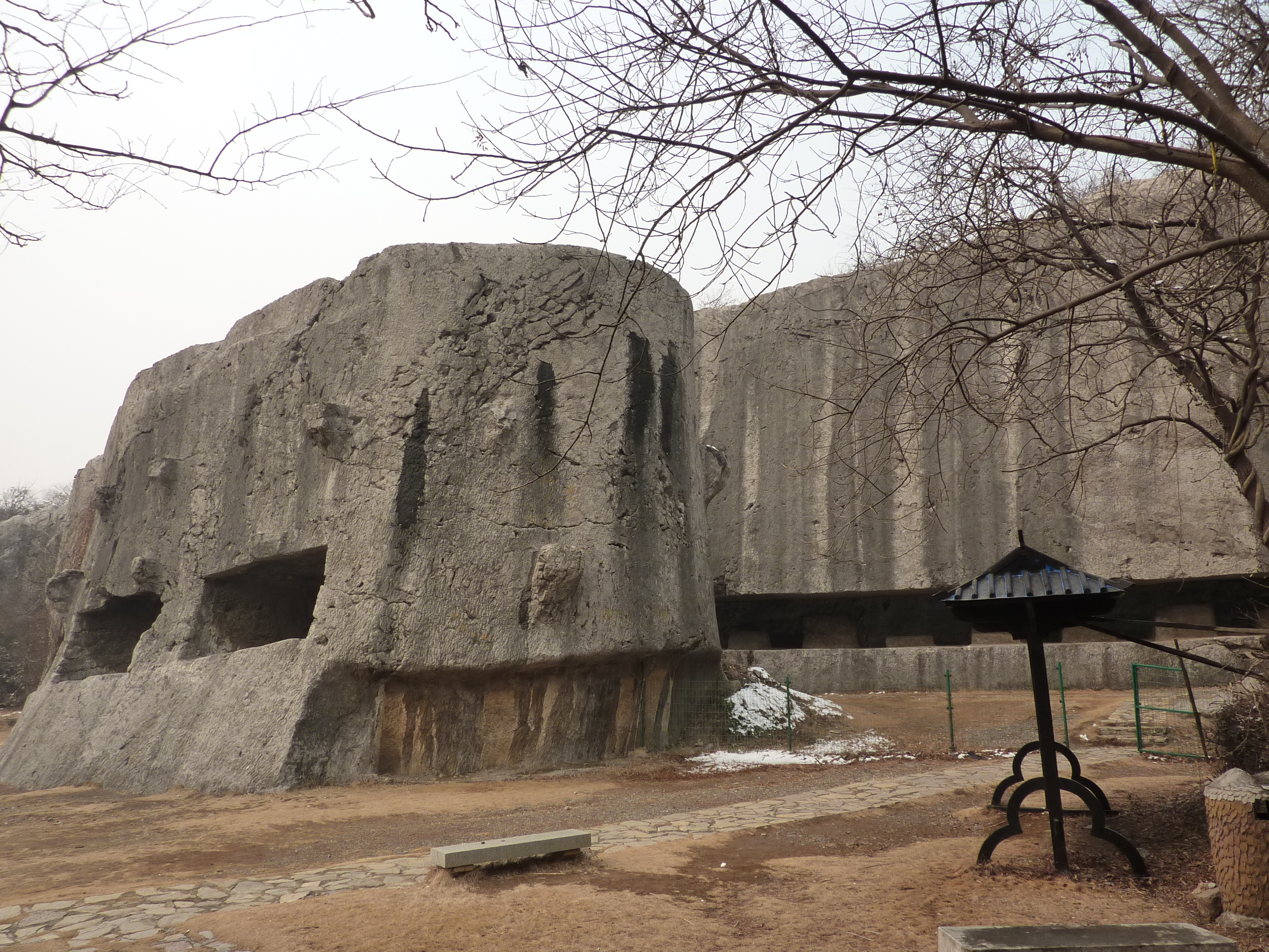 The unfinished "Monument Head", sitting still attached to the living rock in the middle of the north-eastern pit of the Yangshan Quarry, now nicely landscaped. (This is the top part of the stele, which, in a finished stele would probably have been fashioned into a dragon design). The horizontal "Monument Body" can be partially seen in the background.